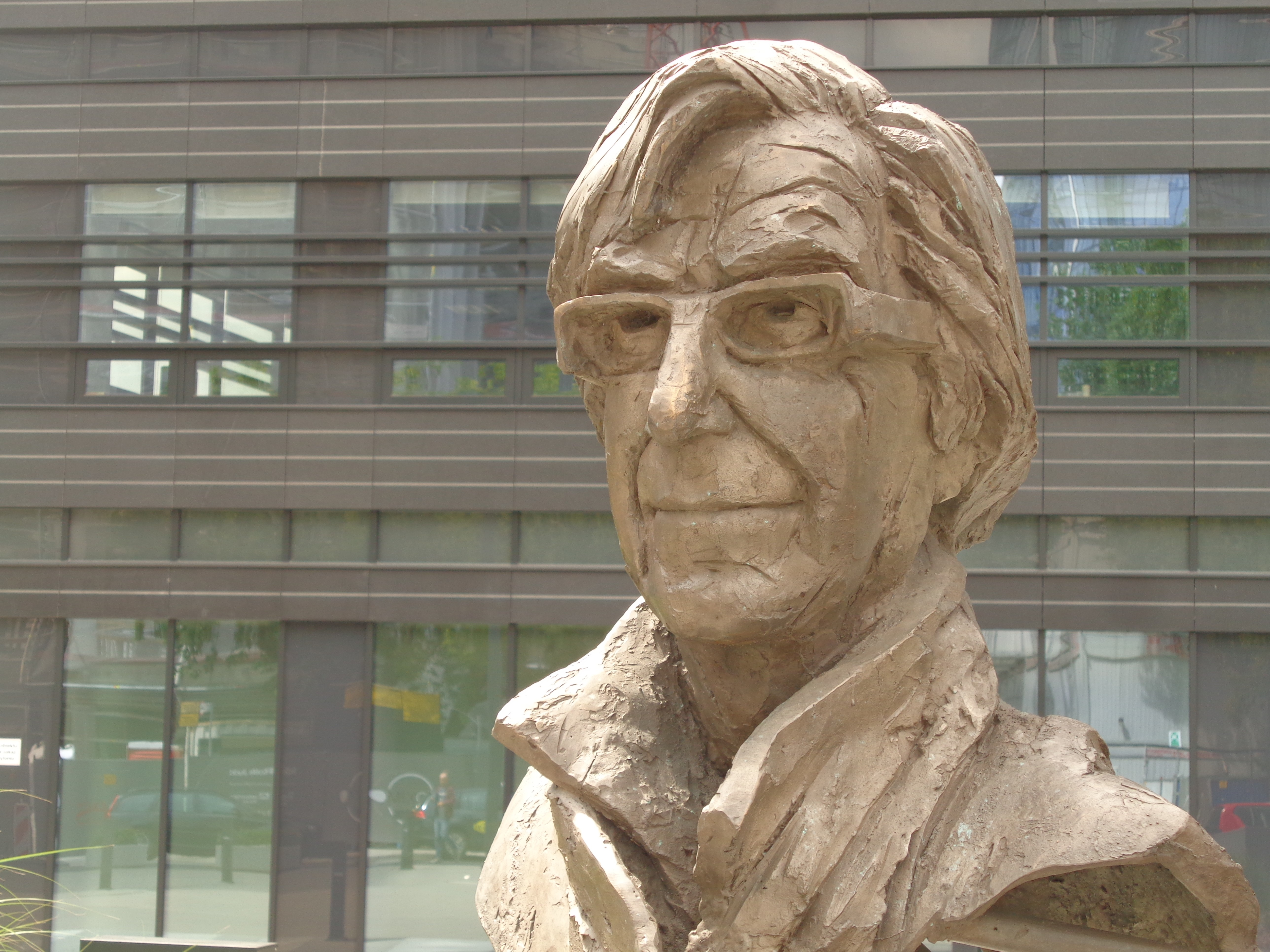 Stefan Kuryłowicz monument on square named of him in Warsaw.